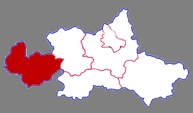 Location of Dongping county in Taian City, China